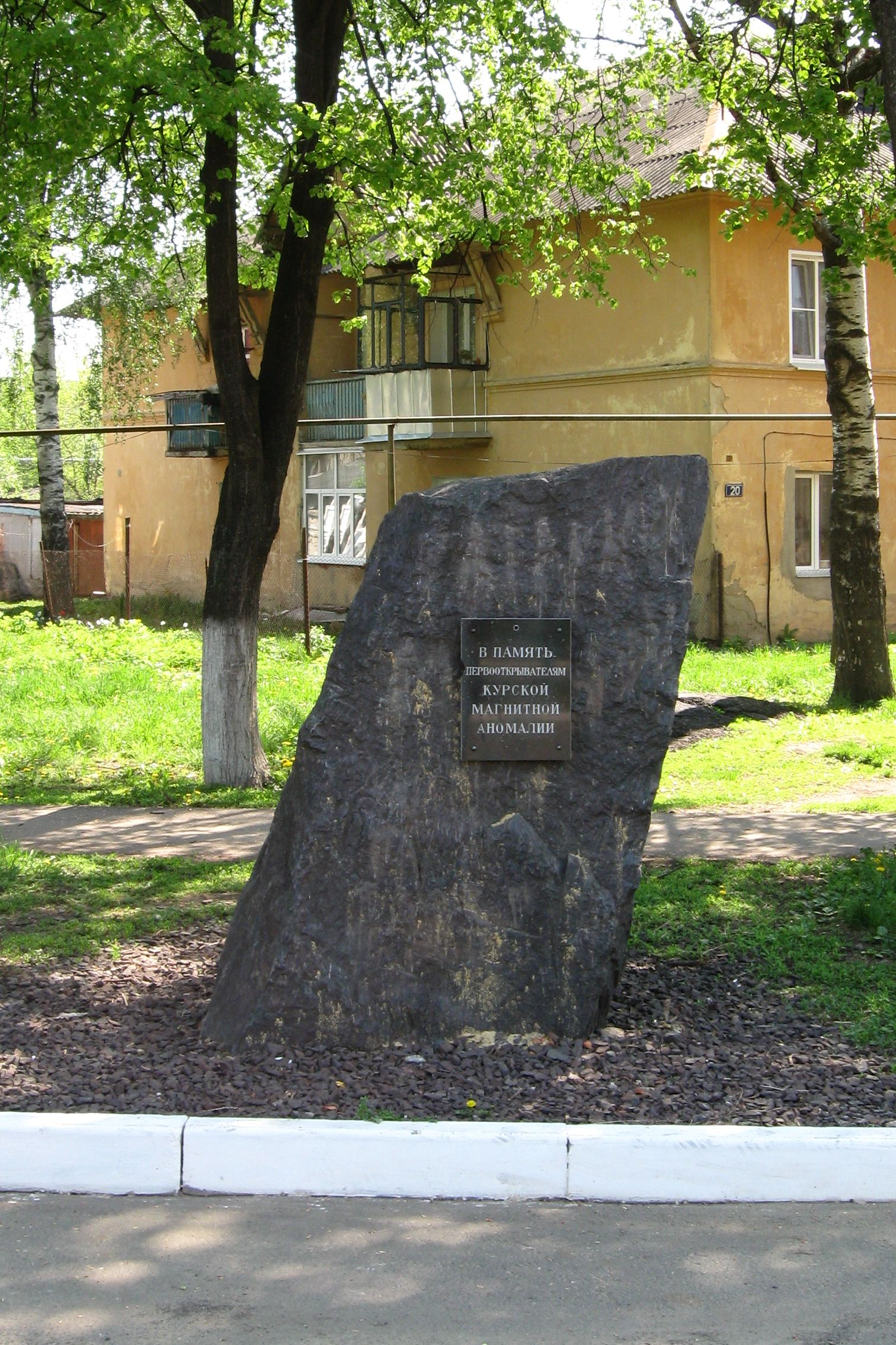 Kursk Magnetic Anomaly Discoverers memorial in Shchigry